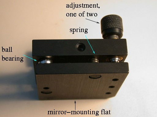 A kinematic optical mount used for mirrors. Photo taken January 6, 2006 at HP Labs by Alison Chaiken using a Nikon 995 camera. Annotated using xfig.